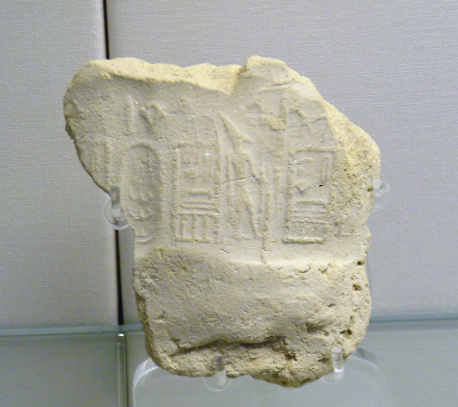 sealimpression naming king Peribsen, 2nd Dynasty, Ancient Egypt